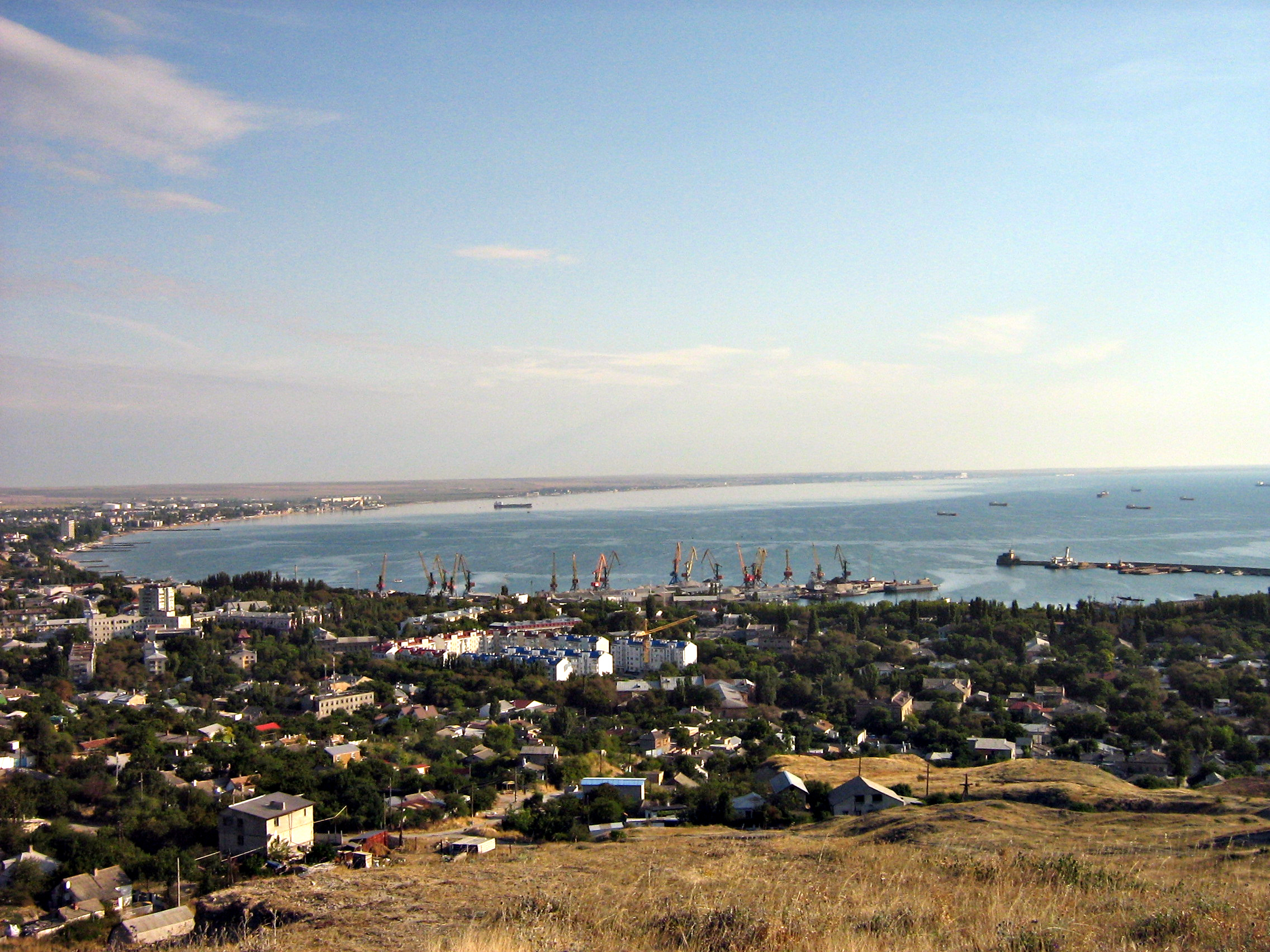 Feodosiya Bay. view from Tepe-Oba.